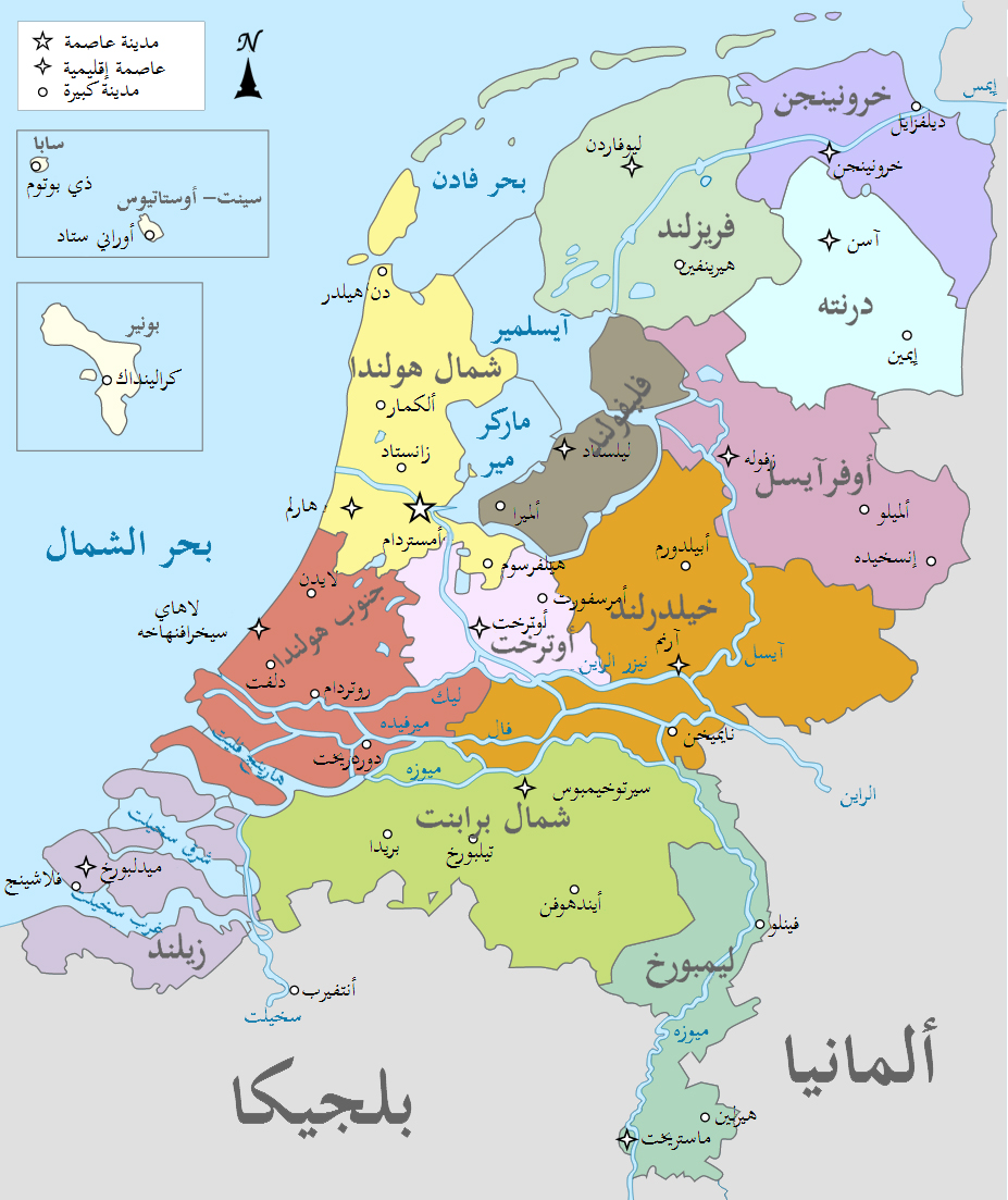 Map of The Netherlands (including the special municipalities of Saba, Saint Eustatius and Bonaire; the Caribbean Netherlands), showing provinces, large cities, rivers and lakes. Arabic version